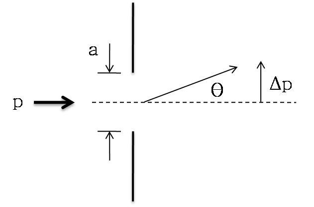 Pictures for explaining heuristic argument of Heisenberg's uncertainty principle